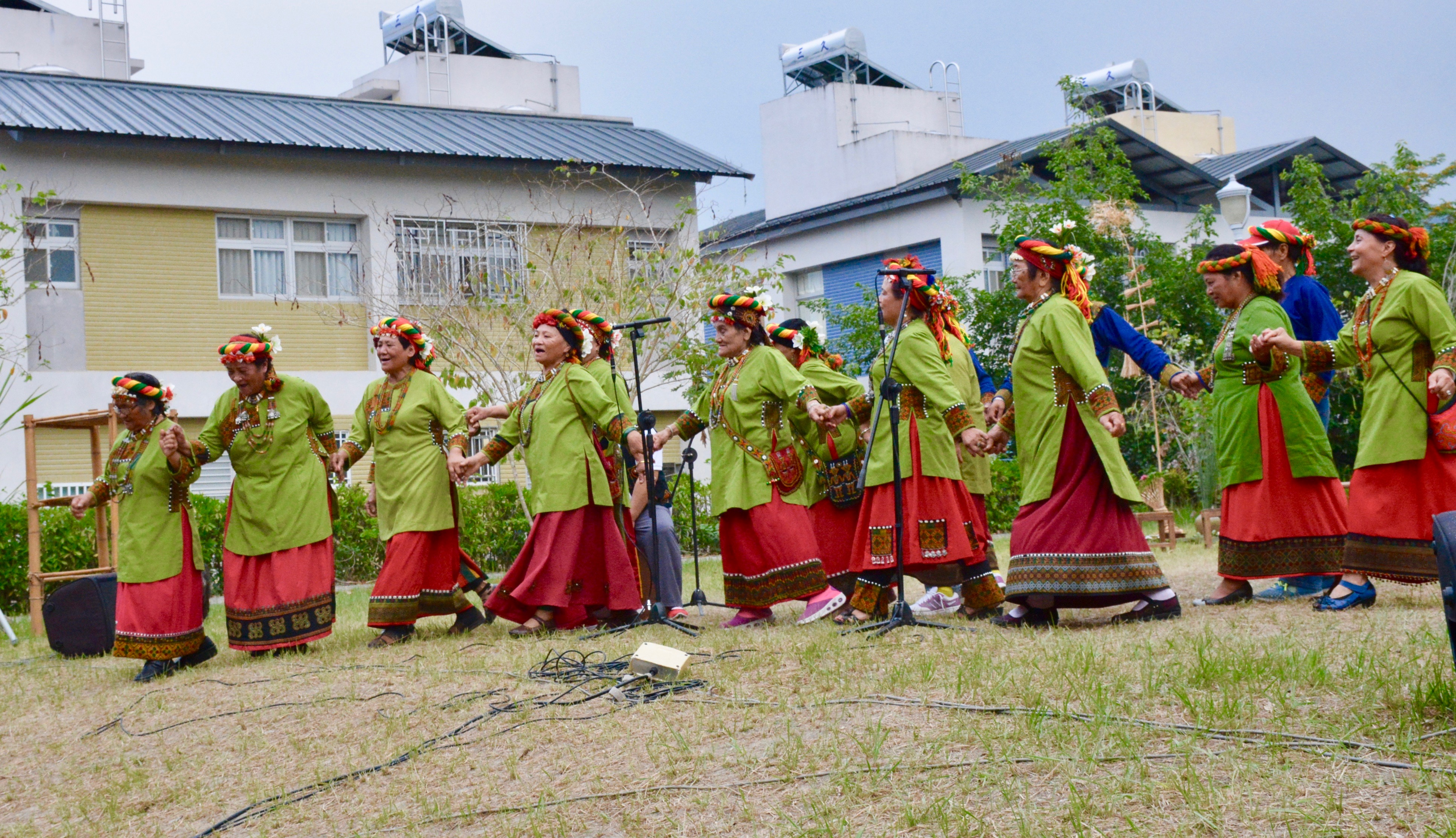 'Oponoho elders, who are classified as a branch of Rukai by Taiwan's government. 中文（台灣）: 萬山魯凱族，未來希望獲正名為 'Oponoho。